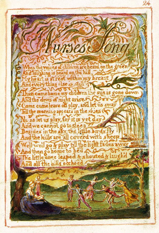 William Blake Nurses Song Copy Z 1826 Library of Congress